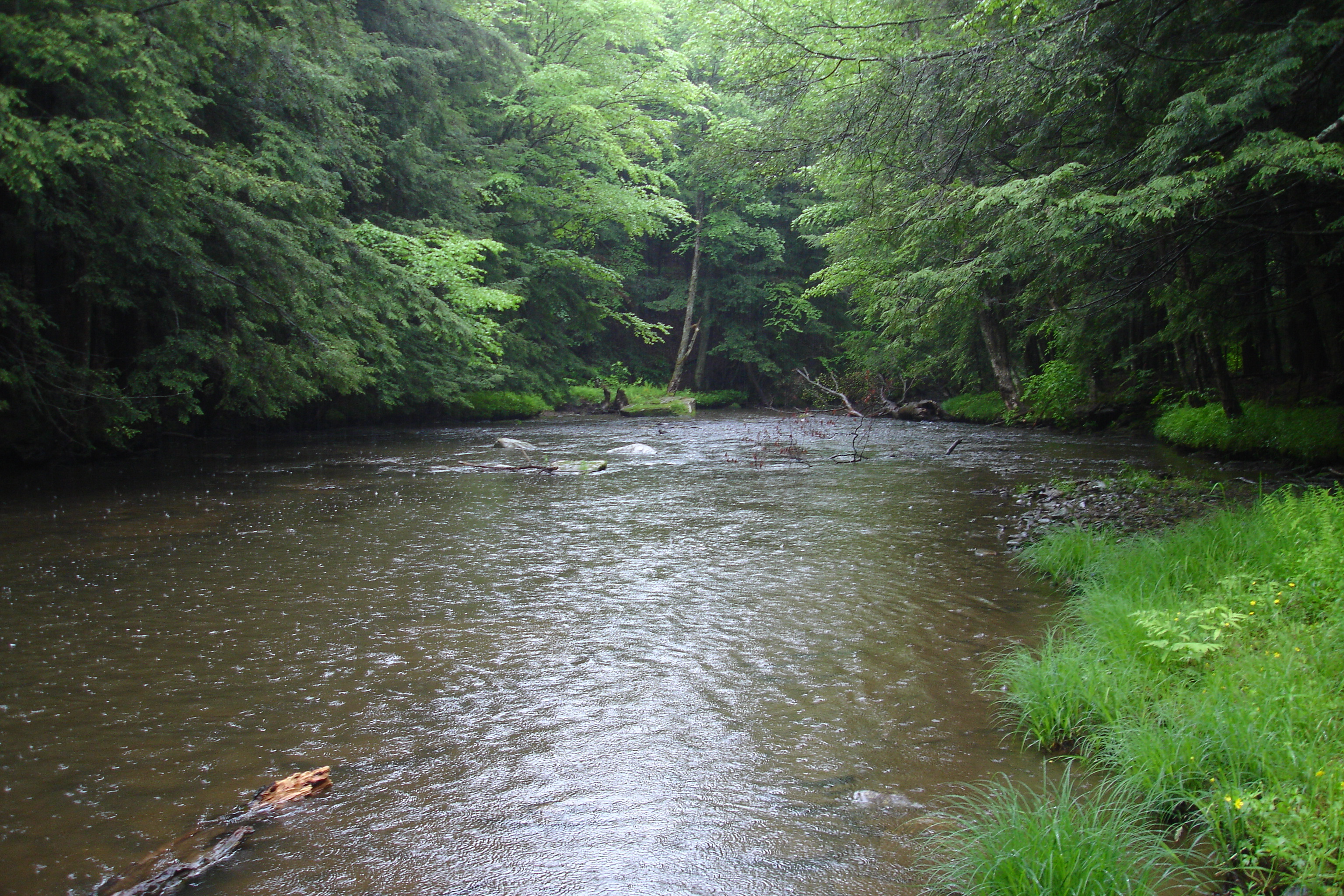 Tionesta Creek, a tributary of the Allegheny River in the Allegheny National Forest of western Pennsylvania.